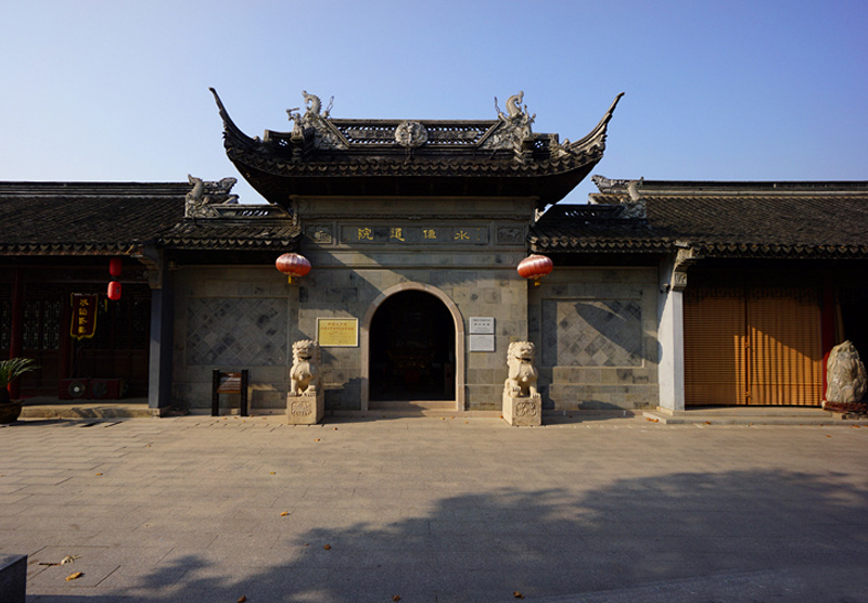 Wuxi Shuixian Taoist temple, Shuixian: a immortal like Achelous.